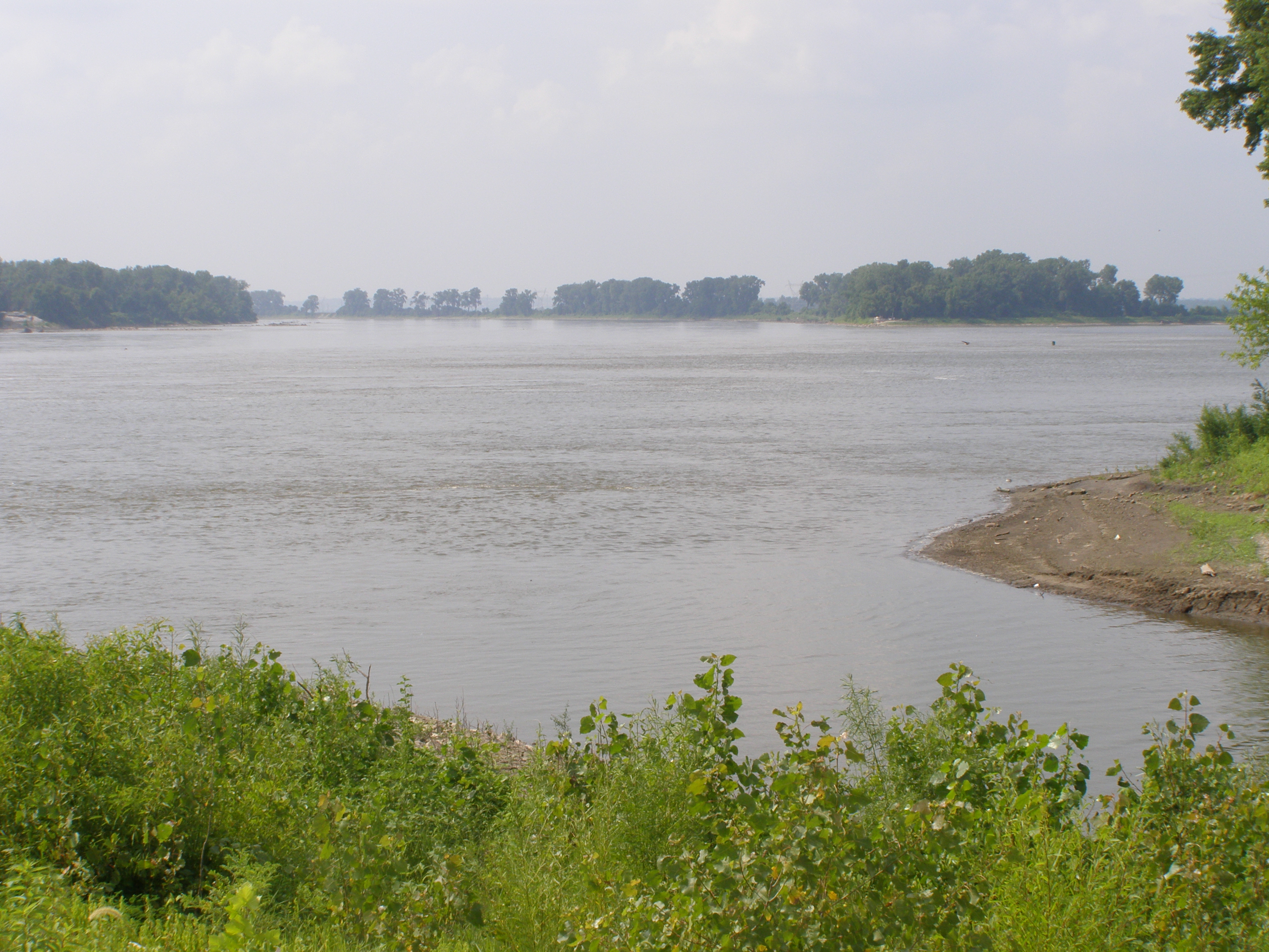 Mouth of the Dubois River, the location from which the Lewis & Clark Expedition left the United States and headed up the Missouri River in 1804. The Missouri River is visible in the opening of the trees on the horizon and the Mississippi River crosses from right to left. Lewis and Clark State Historic Site (Illinois)